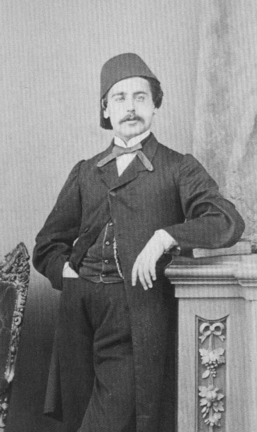 Agah Efendi, (1832–1885), Ottoman writer (Cropped image)